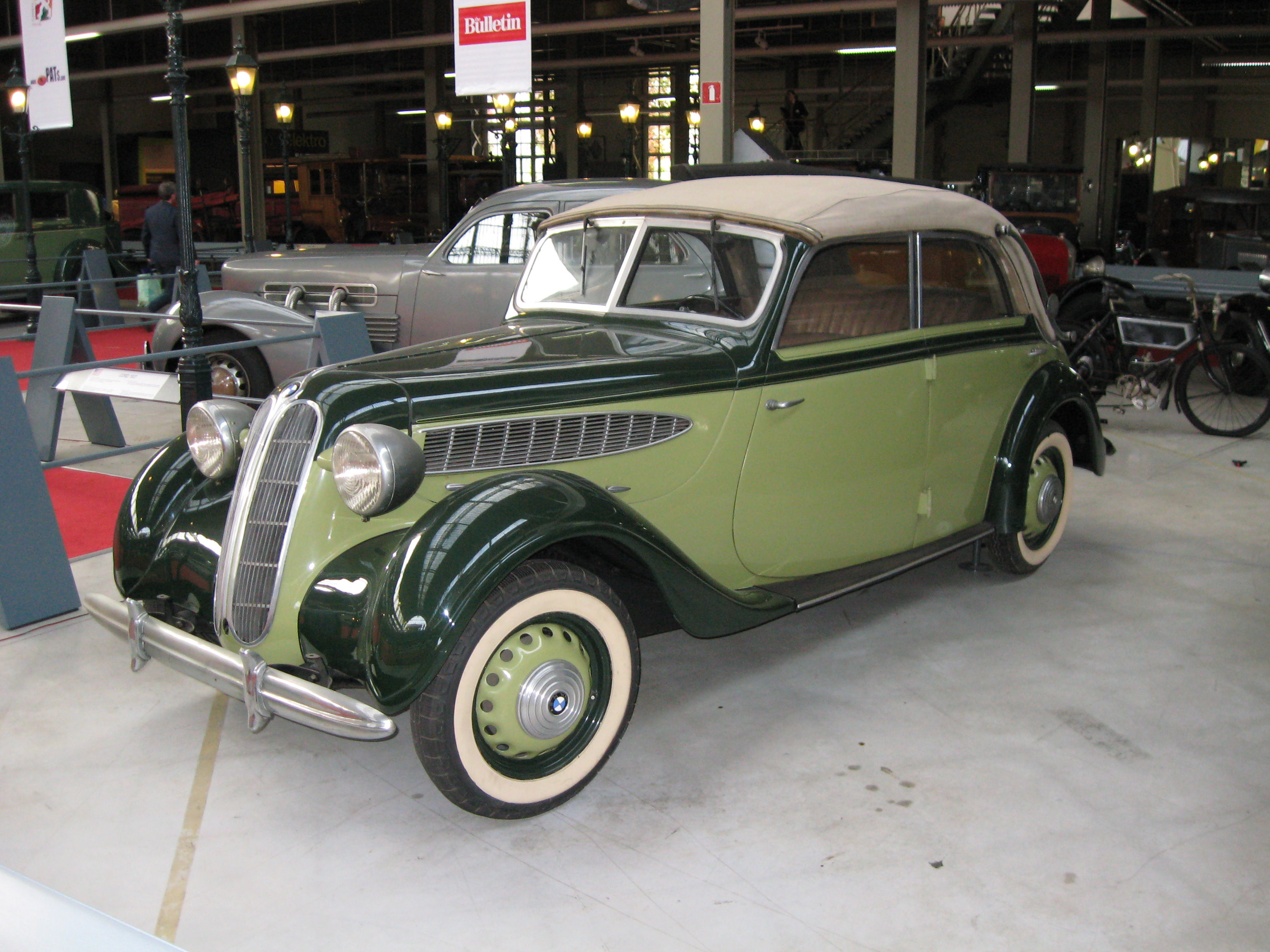 Autoworld Brussels